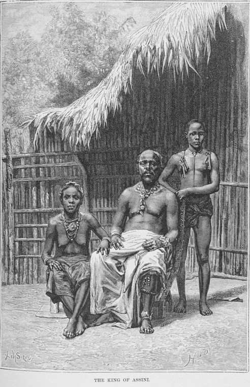 "The King of Assini"